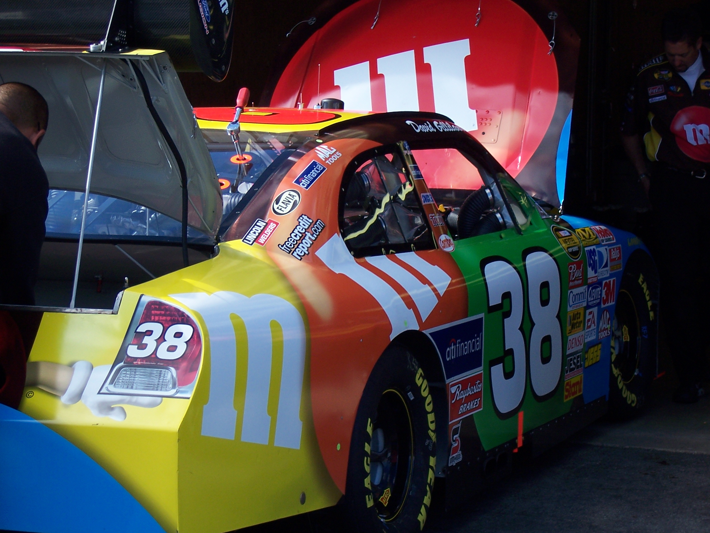 The Robert Yates Racing #38 Ford driven by David Gilliland at New Hampshire Motor Speedway, June 31, 2007.